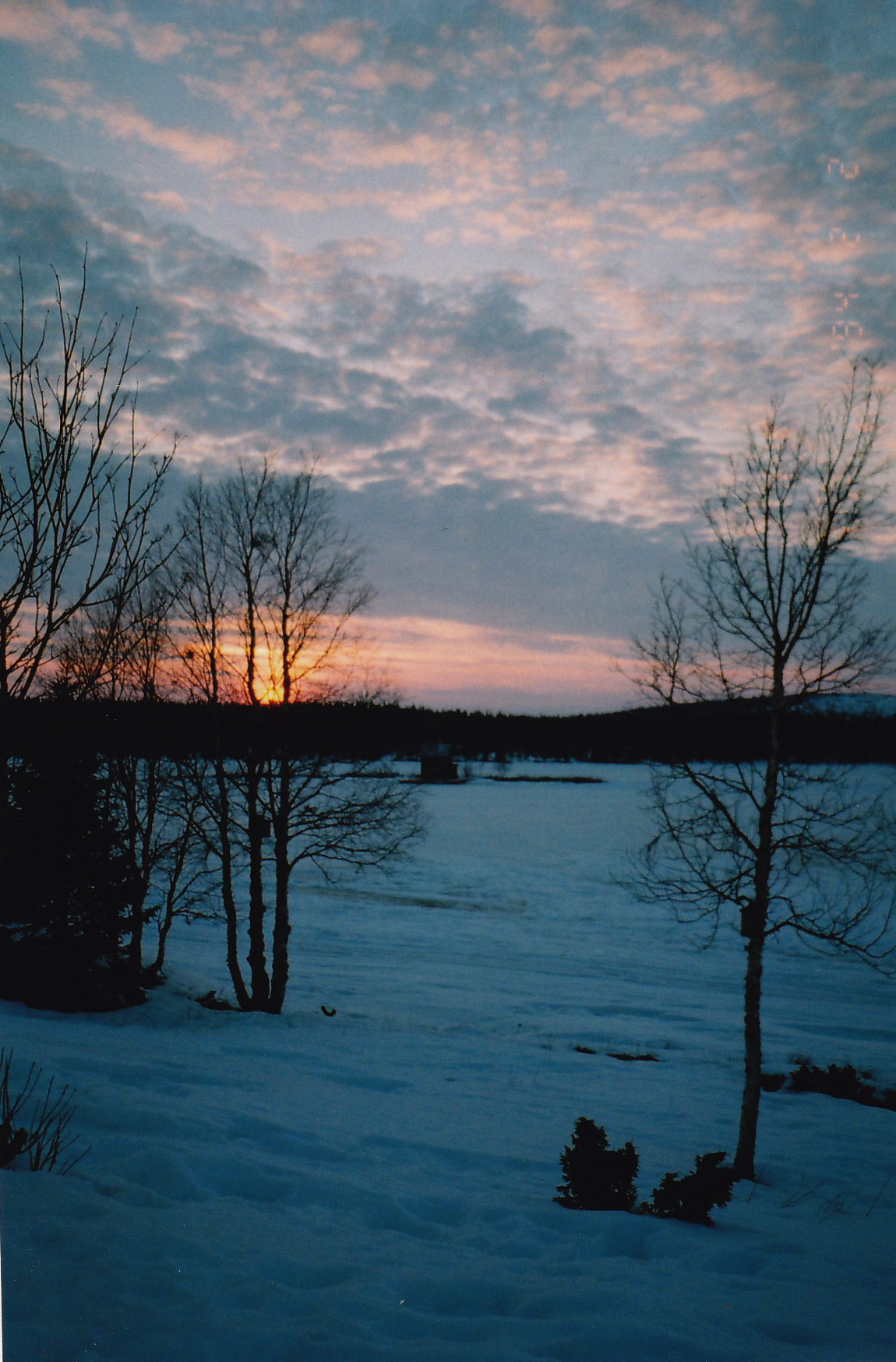 View of Tjautjasjaur, spring 2011